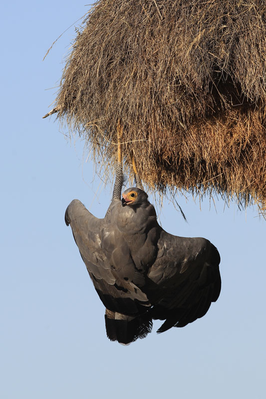 African Harrier Hawk Polyboroides typus hunting on a weaver bird nest in Etosha National Park, Namibia